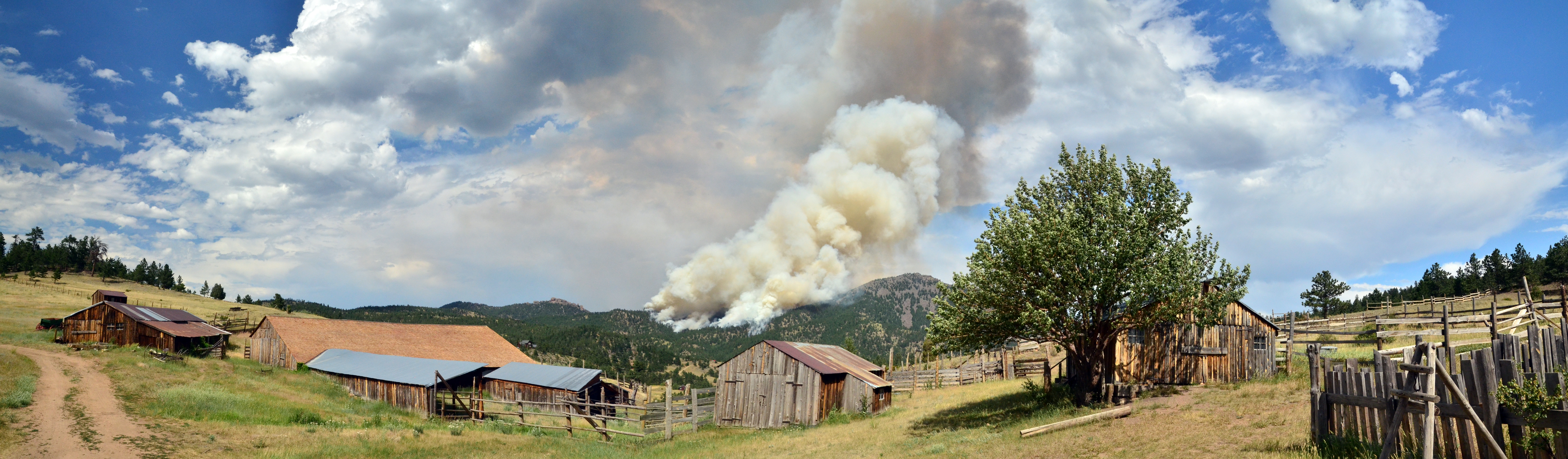 Walker Ranch Historic District, West of Boulder; also 7.5 miles west of Boulder off Flagstaff Rd. Boulder - A view of walker ranch during the 2012 Flagstaff Fire on S. Boulder Peak